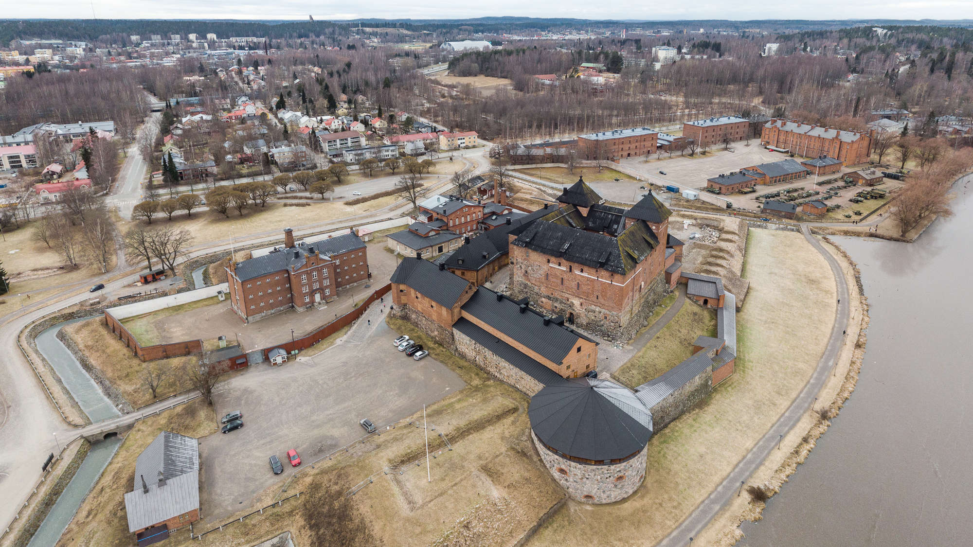 Häme Castle, Prison Museum, and Museum Militaria in Hämeenlinna, Finland.